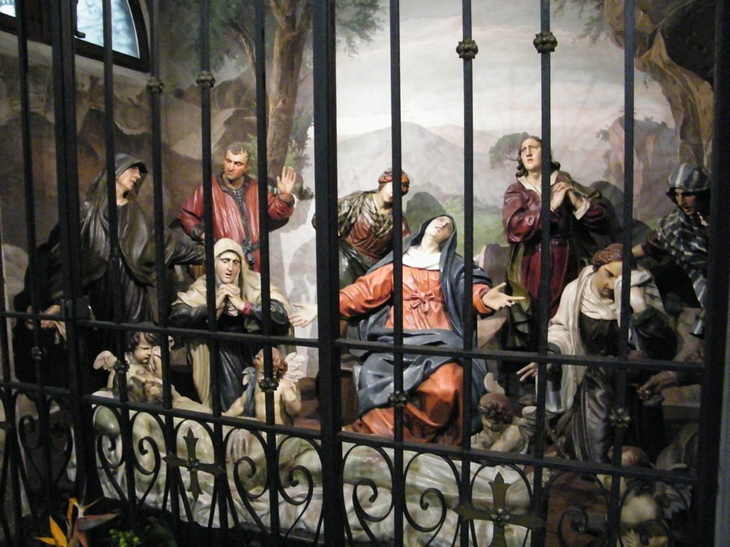 Compianto by Andrea Fantoni. Zone